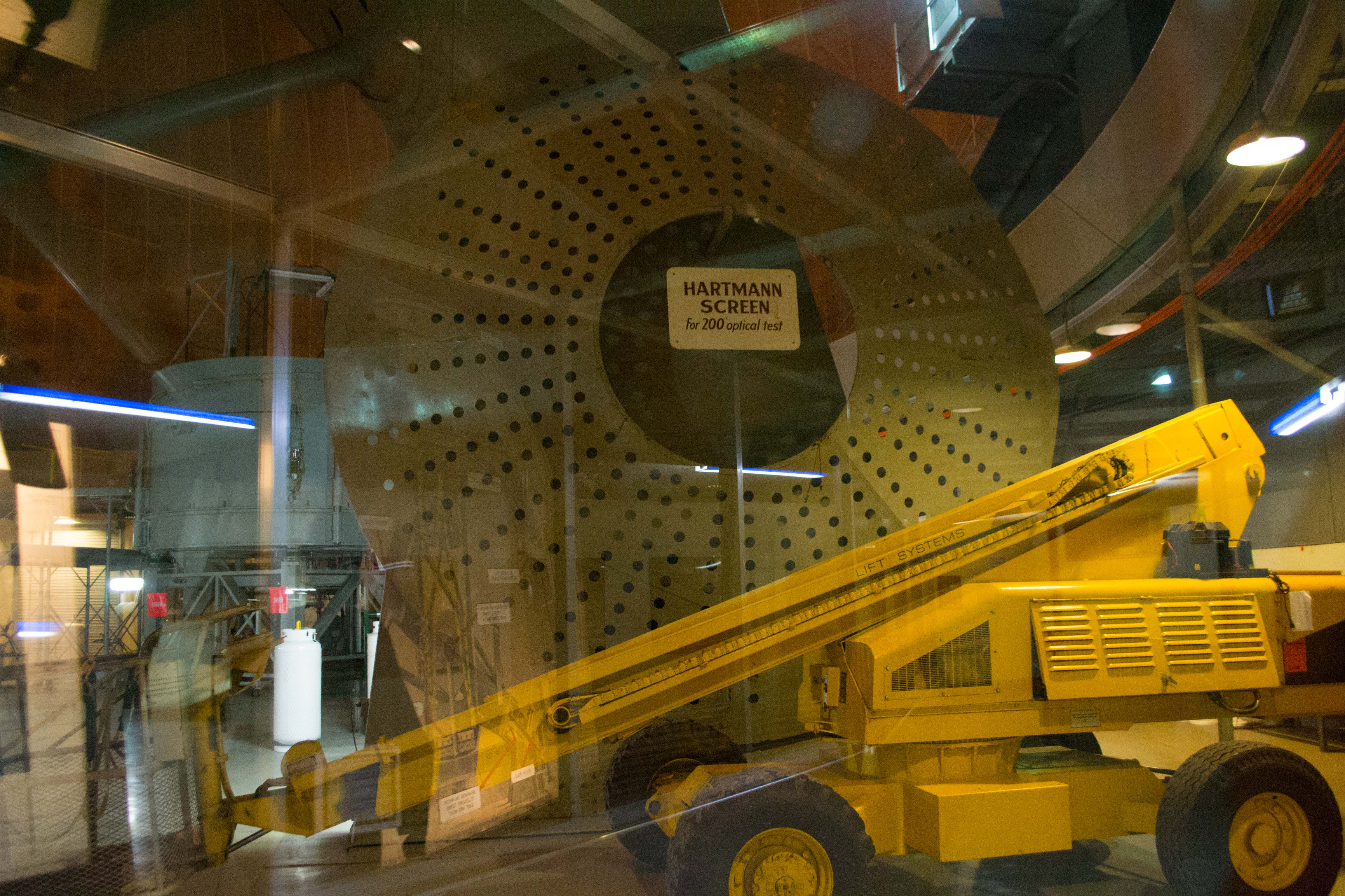 A Hartmann screen for testing wavefront integrity.